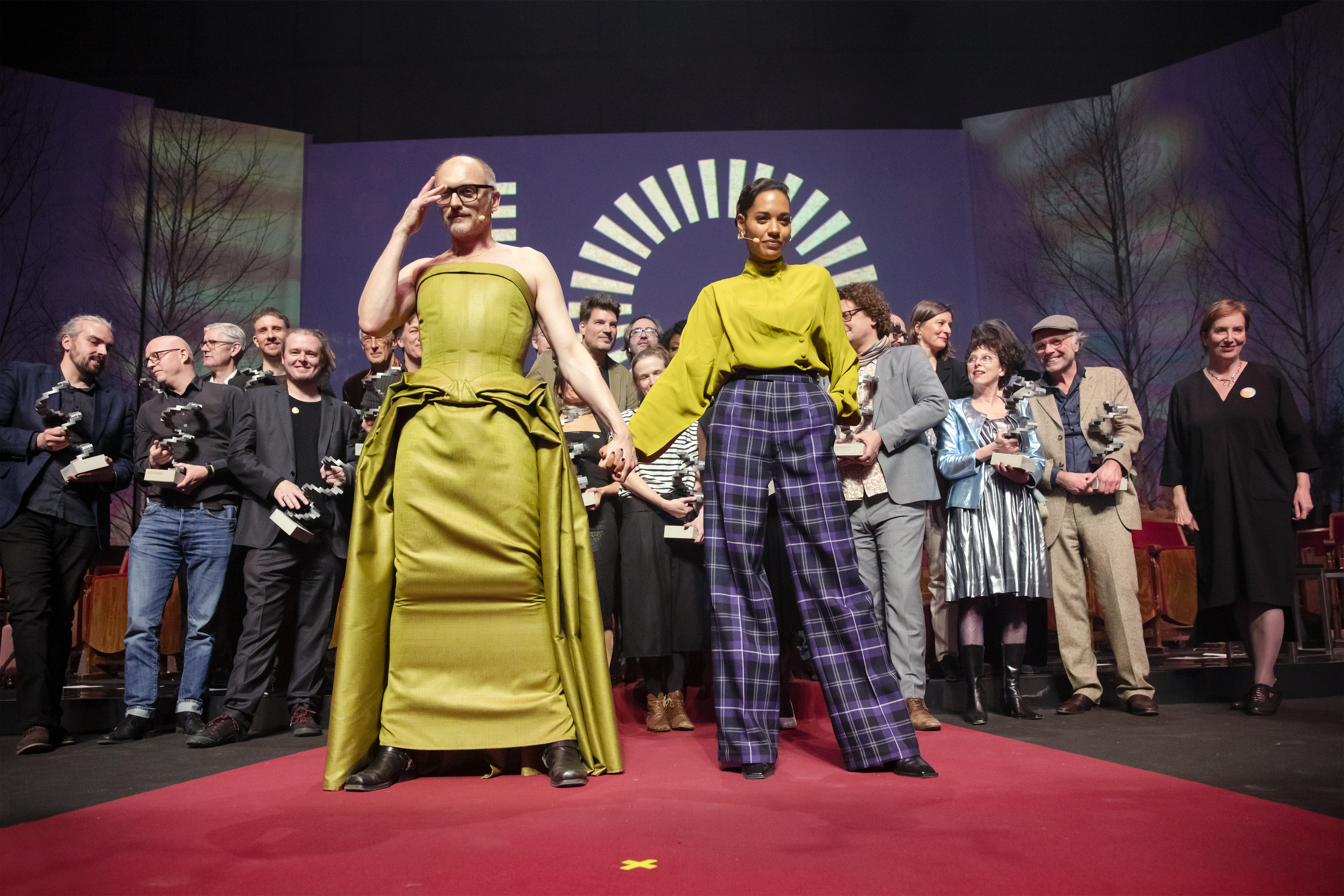 Presenters Salka Weber and Markus Schleinzer with the awardees of the Austrian Film Awards 2020 (Auditorium Grafenegg at Grafenegg Castle, Lower Austria,Austria).